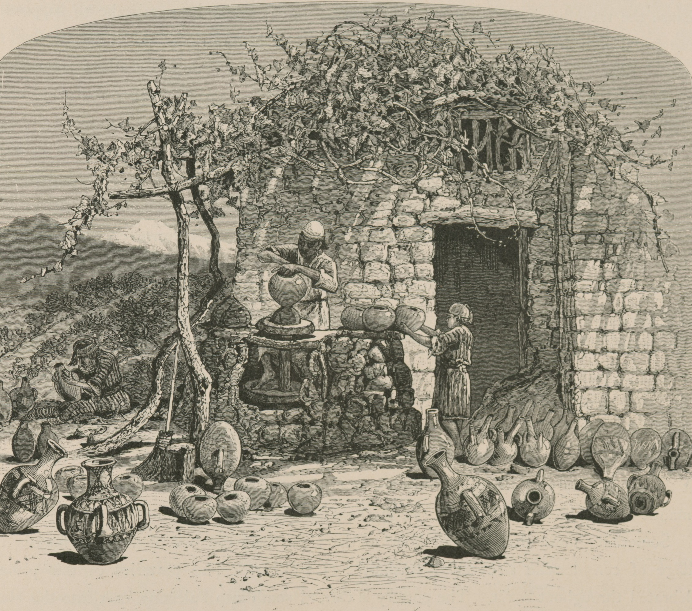 Pottery, Râsheiyet el Fûkhâr; this place, as its name implies, is famous for its potter's clay. Its furnaces are dome-shaped and capable of burning enormous jars. The potter, mounted on a high seat, sets the wheel in motion with his foot and shapes the clay with his hand. The man beyond is adding handles to the jars.